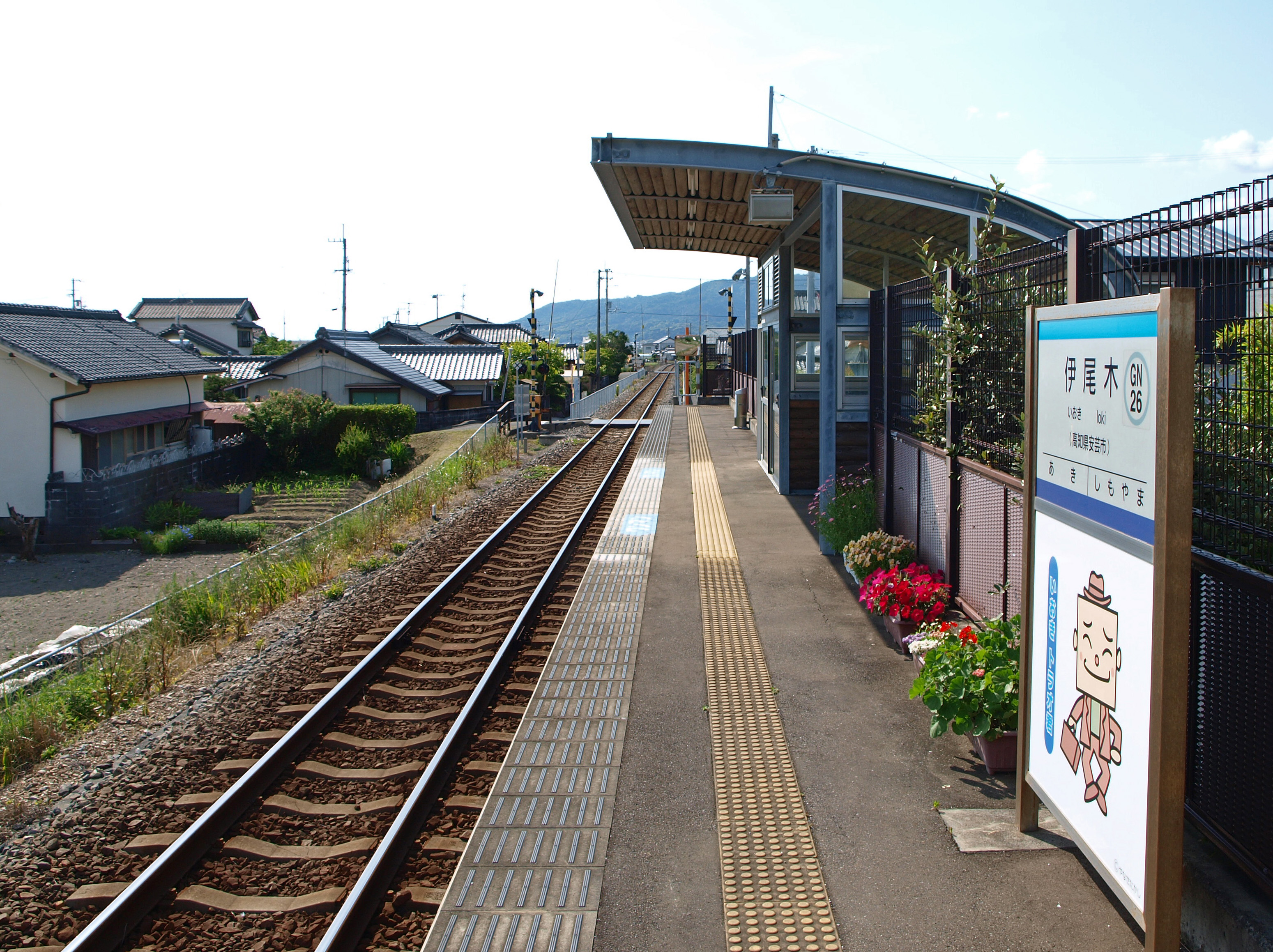 Ioki Station, Gomen-Nahari Line（Asa Line), Tosa Kuroshio Railway, Japan